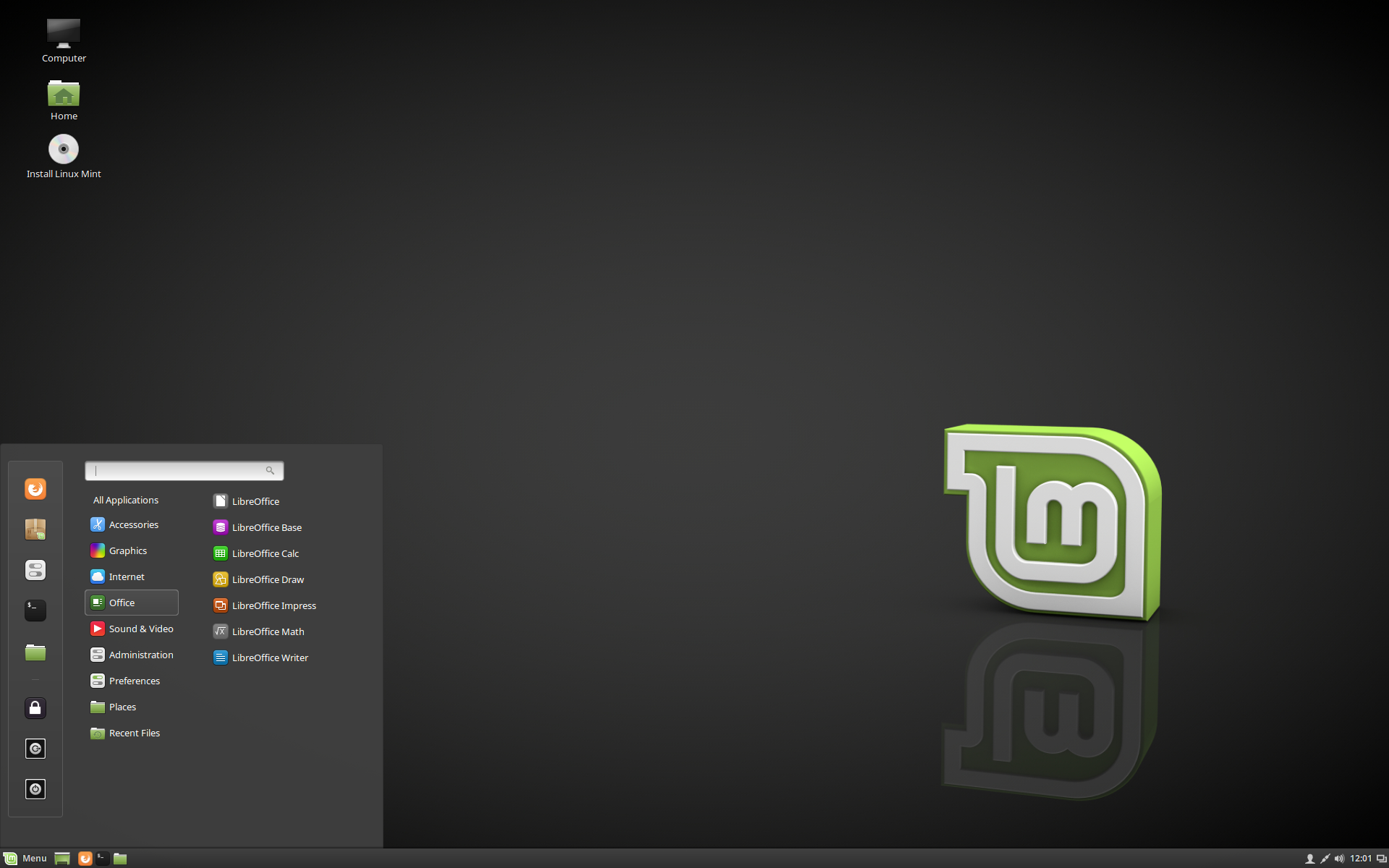 Linux Mint 18.2 Cinnamon desktop in English